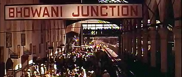 Cropped screenshot from the trailer for the film Bhowani Junction.